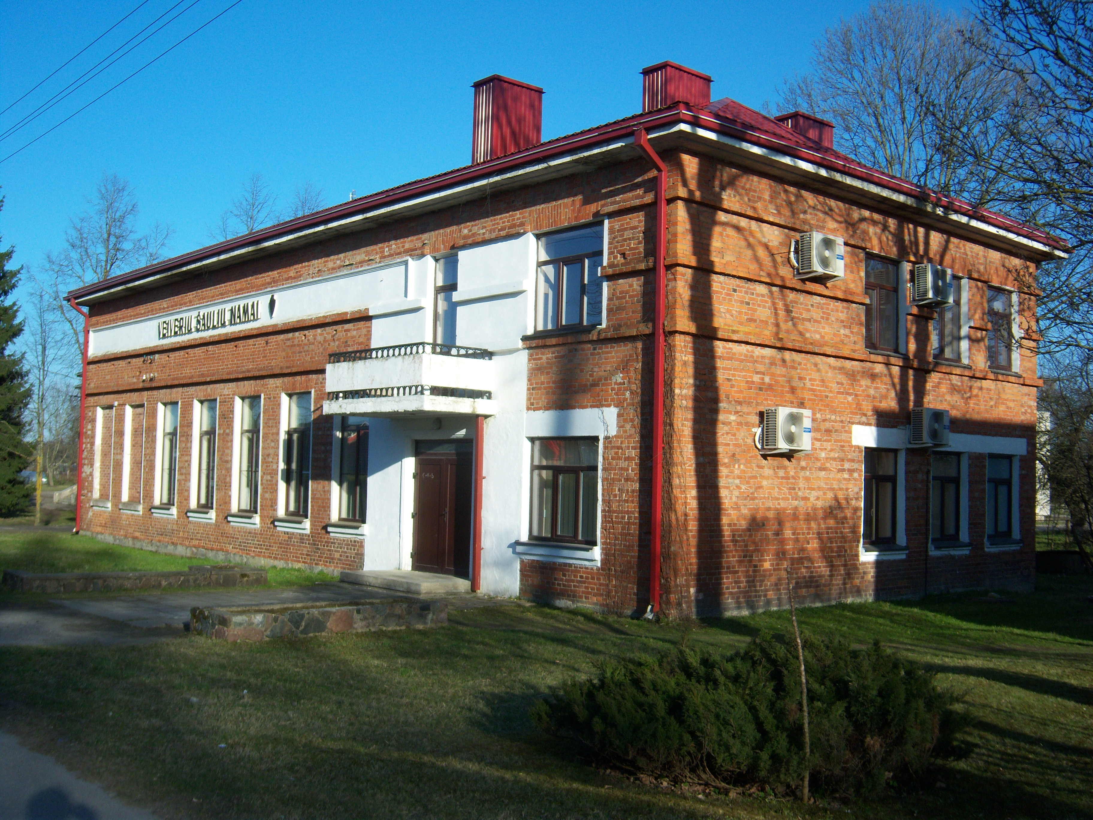 Riflemen's Union house, Veiveriai, Lithuania